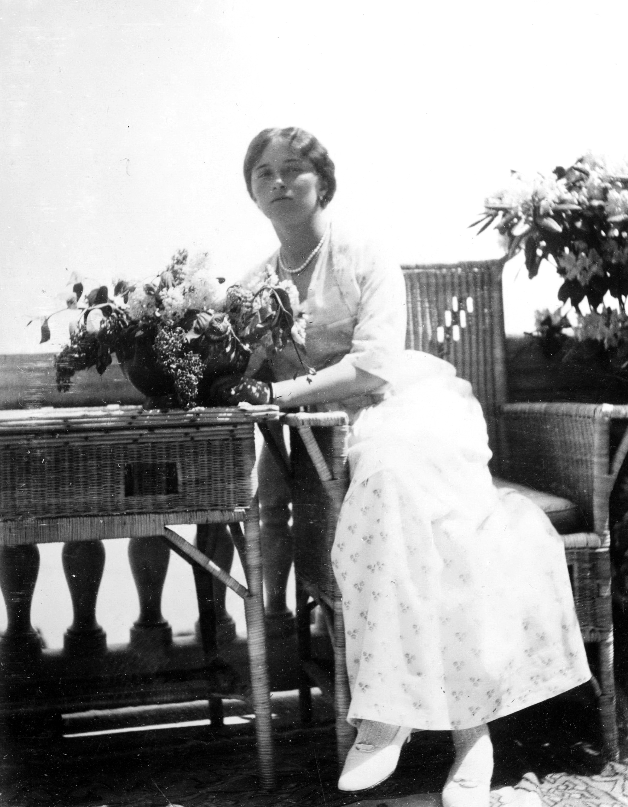 Grand Duchess Olga Nikolaevna of Russia in Livadia, Crimea